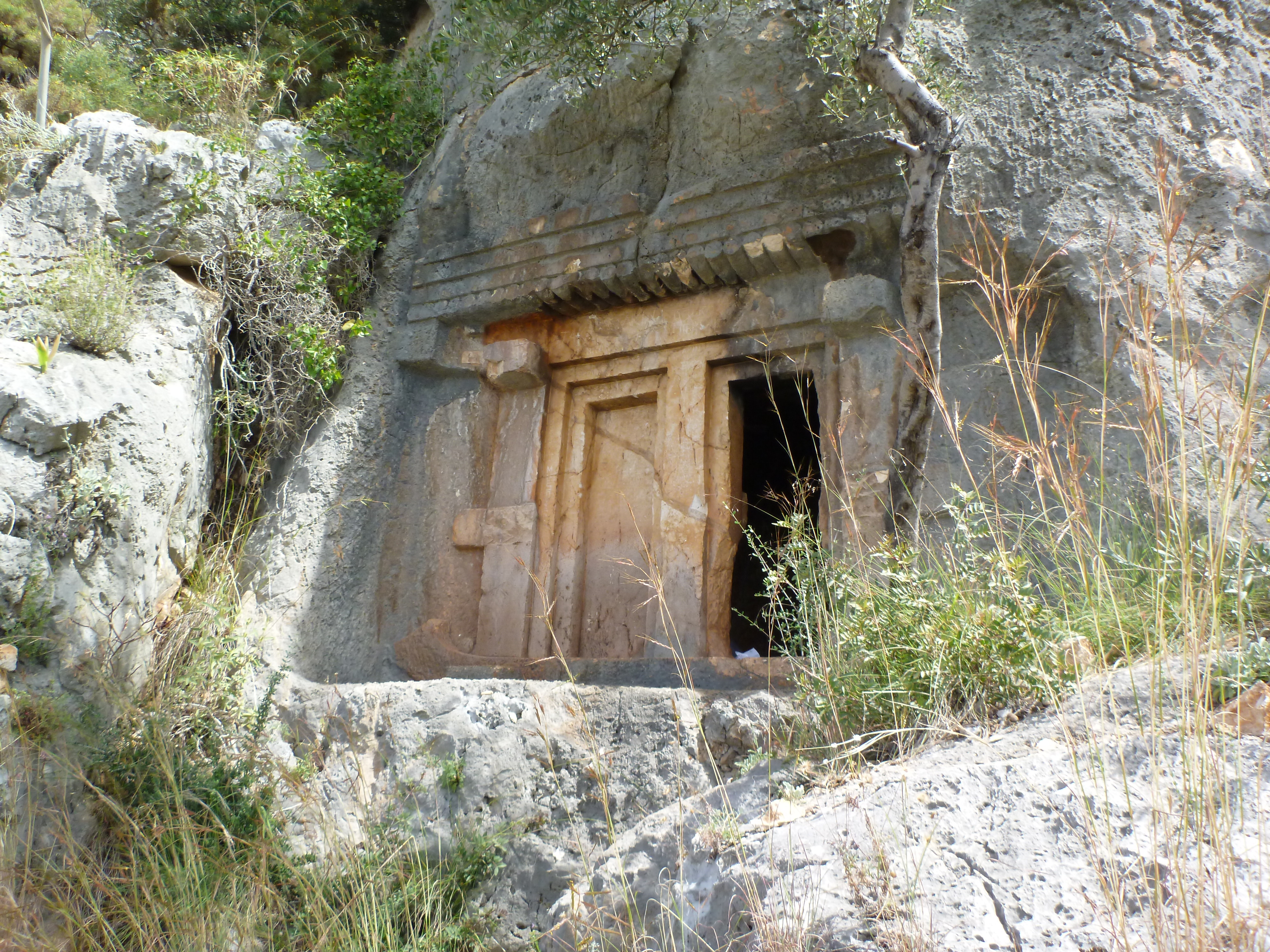 Lycian graves in Kas